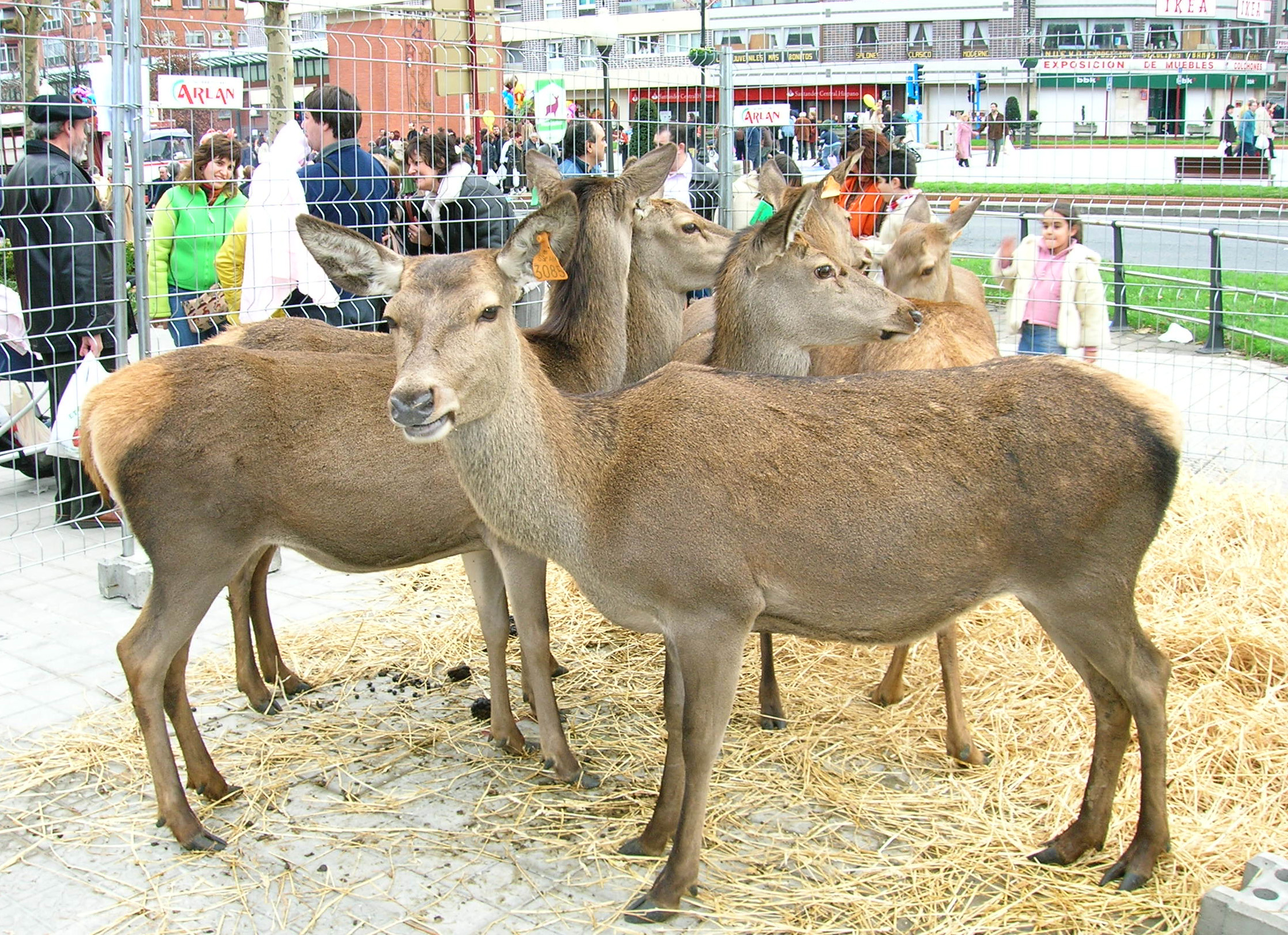 Female deers at the Agricultural and Livestock Fair in Leioa, Biscay, Spain.